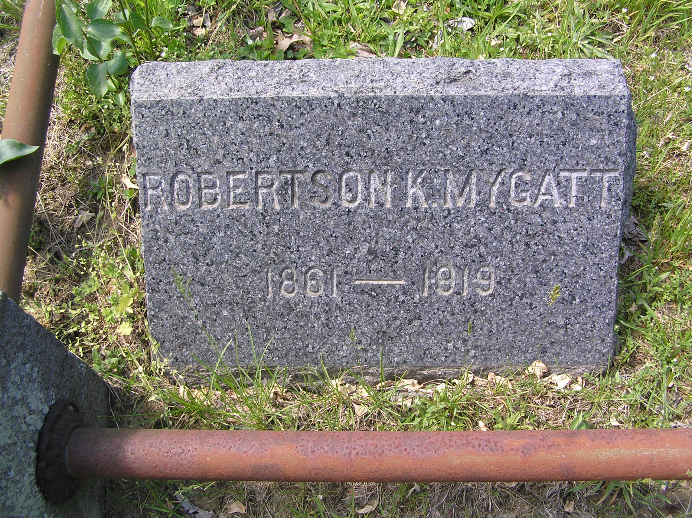 The gravesite of Robertson Mygatt in Sleepy Hollow Cemetery